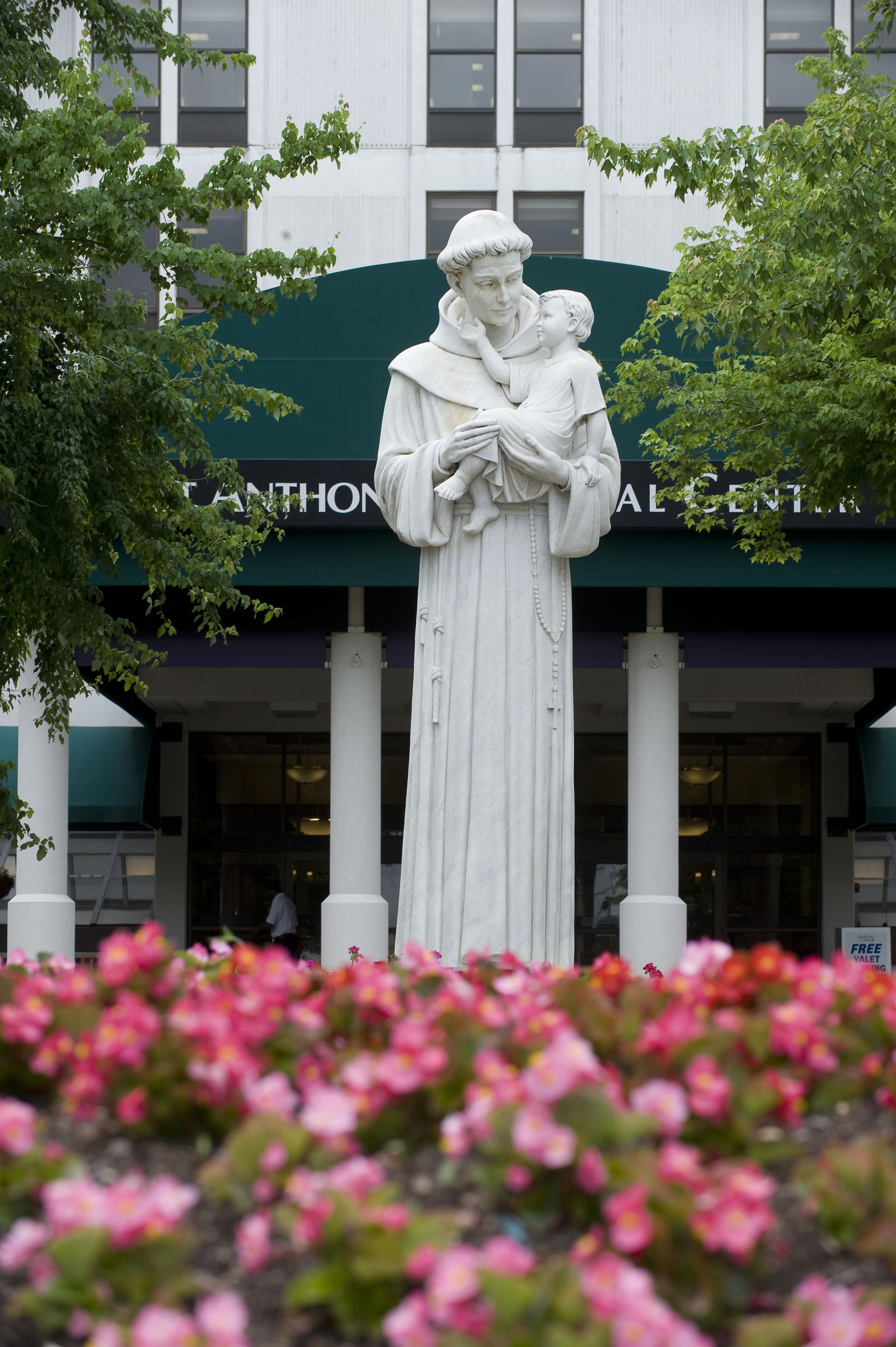 Outside St. Anthony's Medical Center, St. Louis, Missouri, stands a statue of St. Anthony of Padua greeting patients and visitors to the hospital.